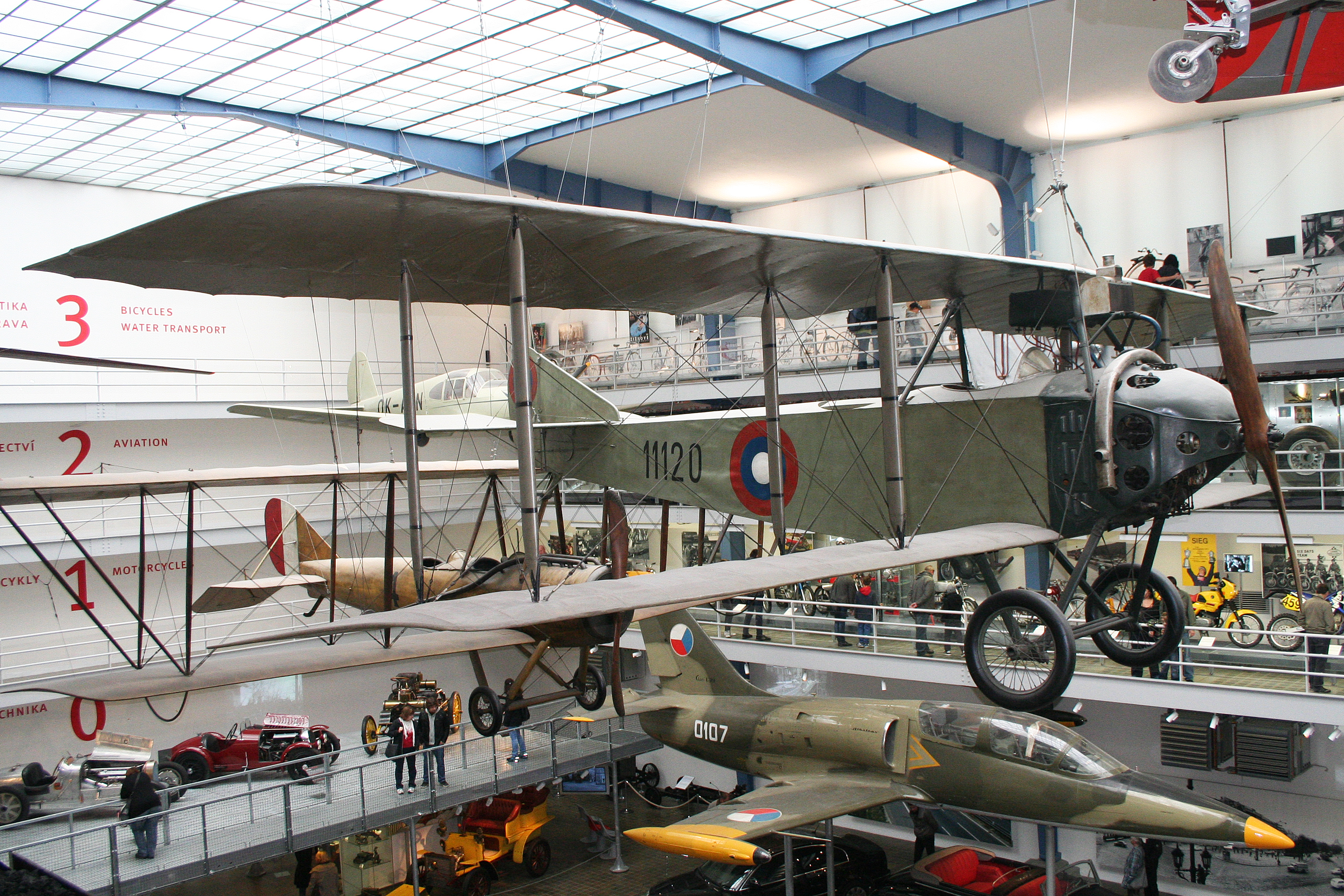 The Anatra DS was a 2-seat reconnaissance aircraft, built in Russia. The type flew in WW1 and was used by both sides in the Russian civil war. msn 3979. National Technical Museum. Prague, Czech Republic. 07-10-2012